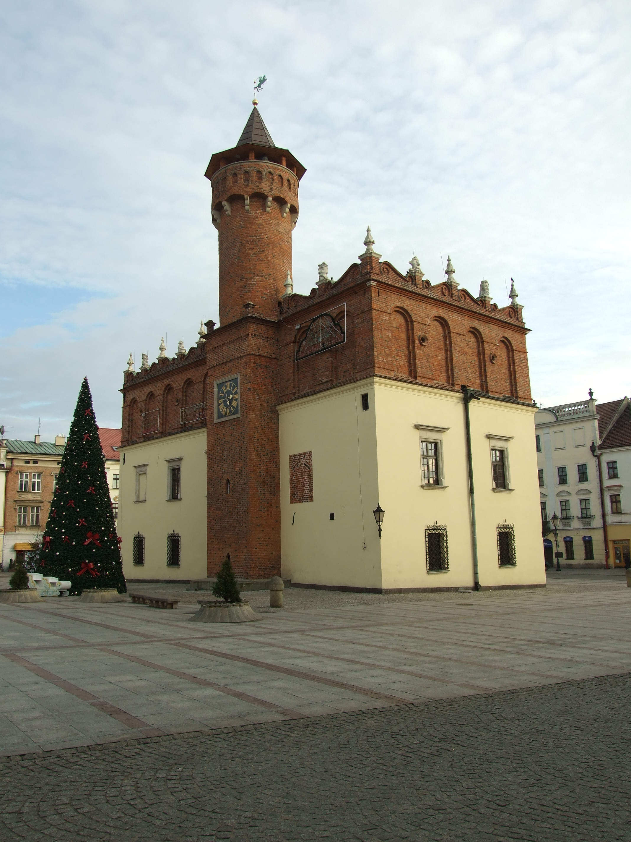 Tarnów, old City Hall. Lesser Polish Voivodship, PL